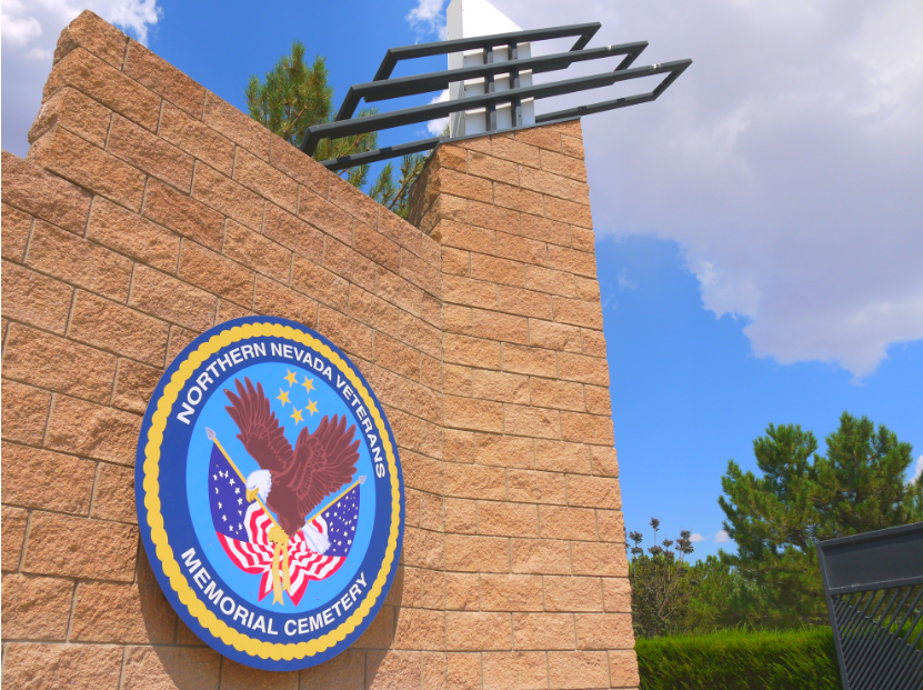 Outside the front entrance looking at the left wall.